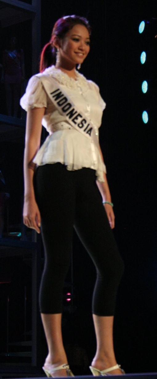 Agni Pratistha, Miss Indonesia 2007, during rehearsals for the Miss Universe 2007 pageant in Mexico City, Mexico